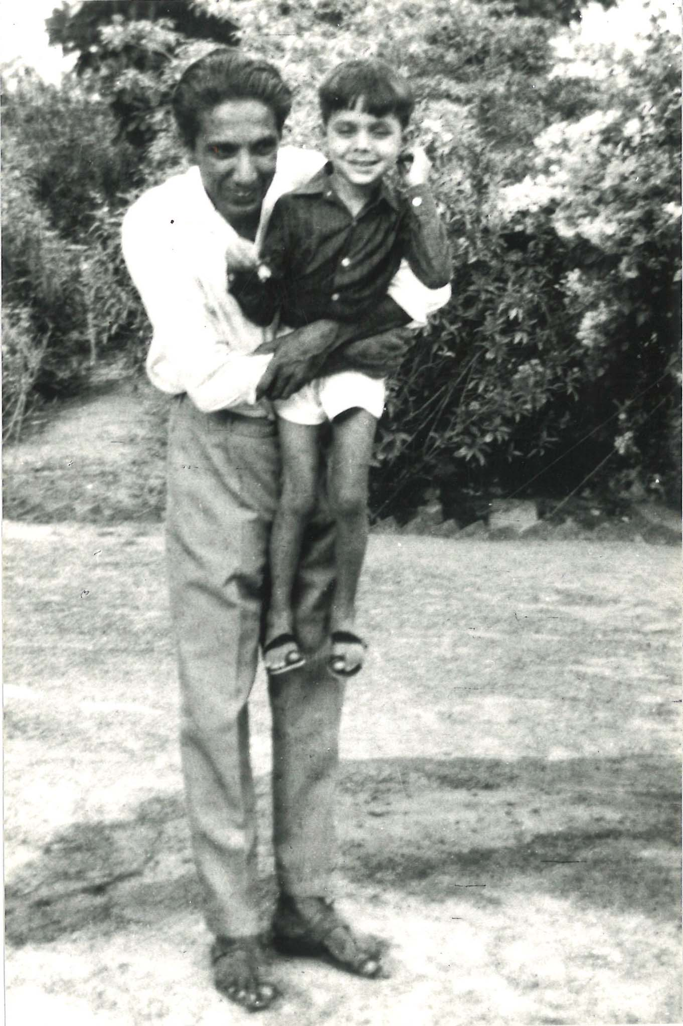 Gujarati writer Niranjan Bhagat with Small child, Amitabh Madia, Ahmedabad, 1971